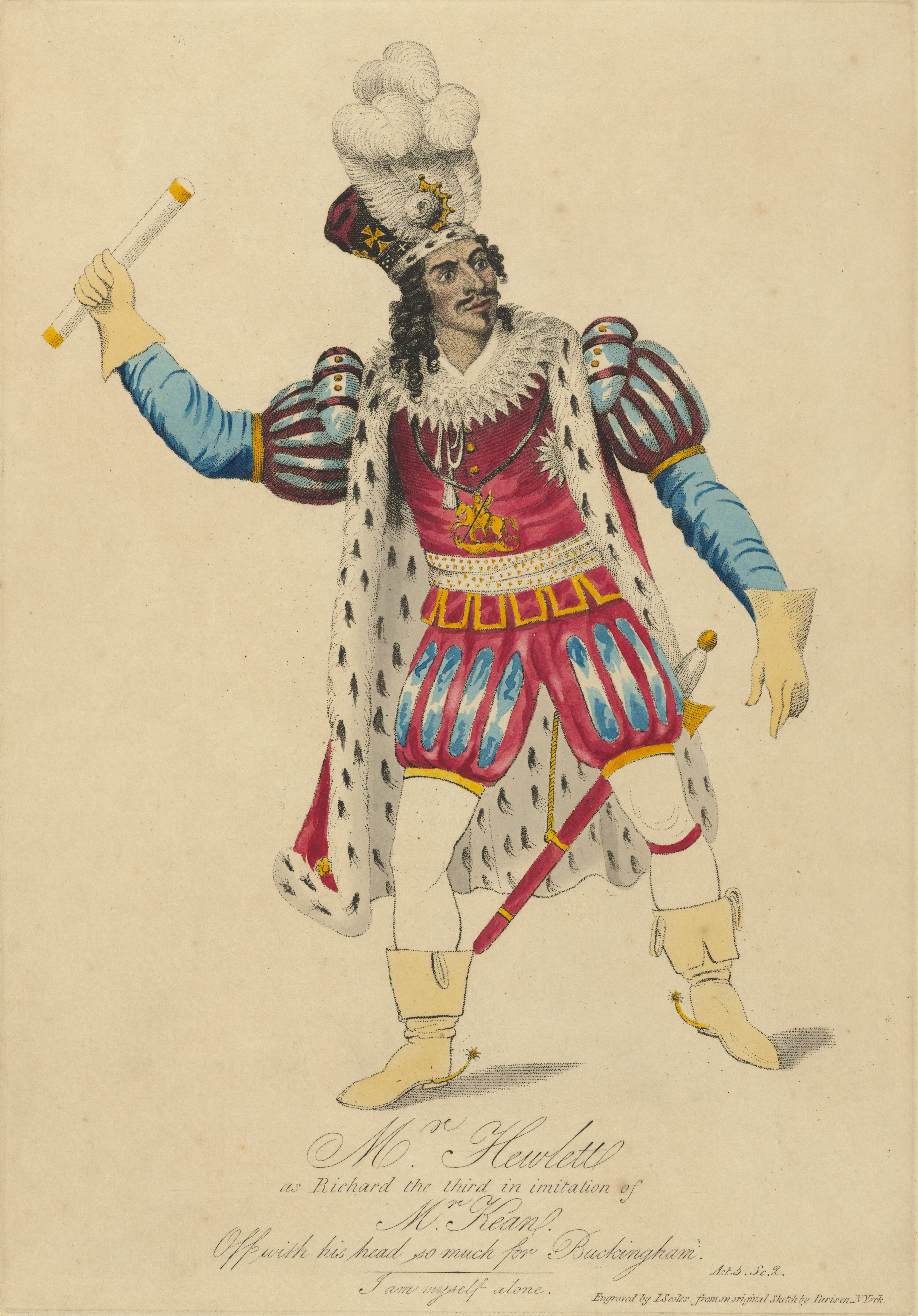 Colored drawing of African American actor James Hewlett (fl. 1821-1831) dressed as Richard the Third ("in imitation" of Mr. [Edmund] Keane). Cropped version. Theatrical Portrait Prints (Visual Works) of Men (TCS 44). Harvard Theatre Collection, Houghton Library, Harvard University